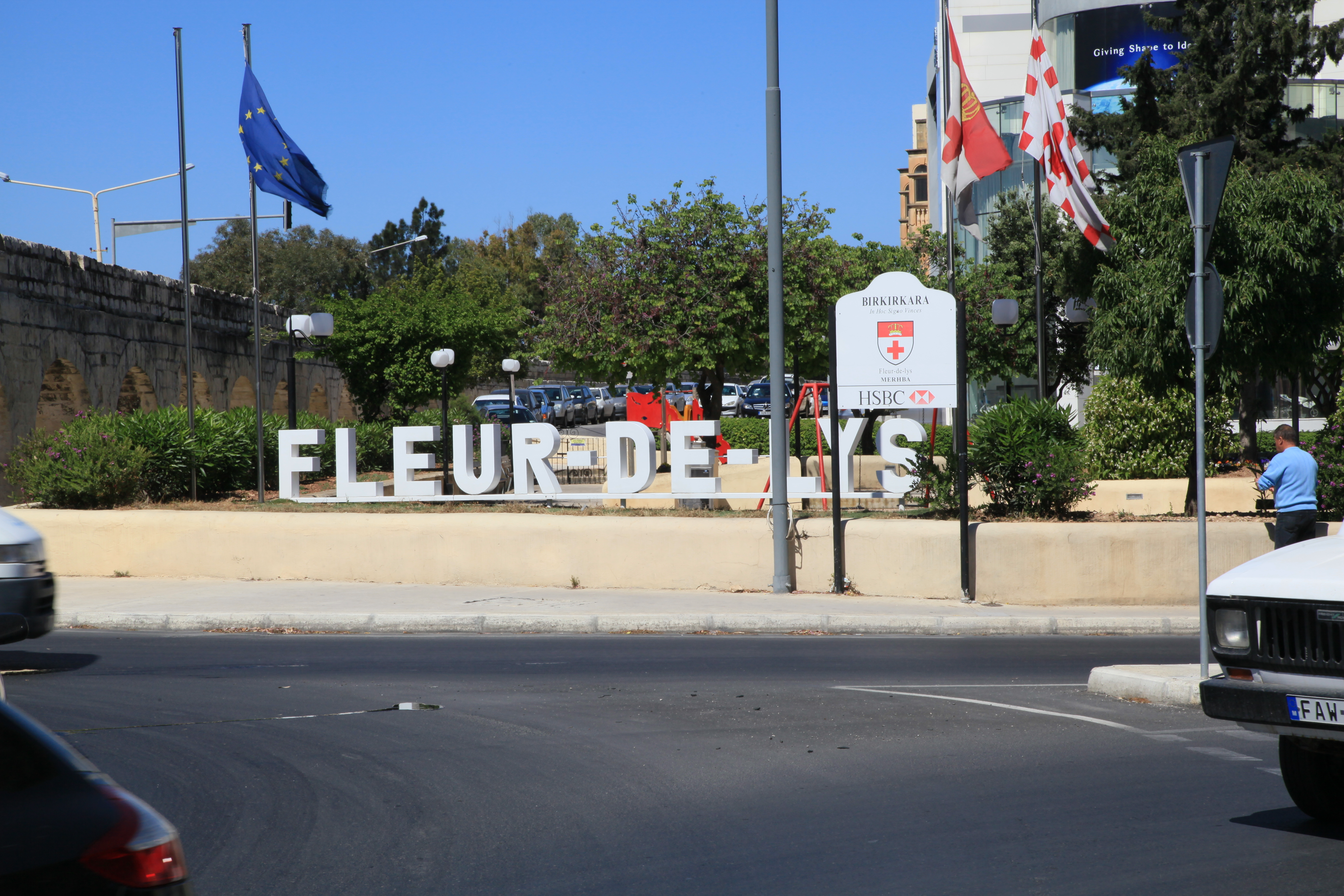 Triq Fleur-De-Lys in Birkirkara at the boundary to Santa Venera, Malta